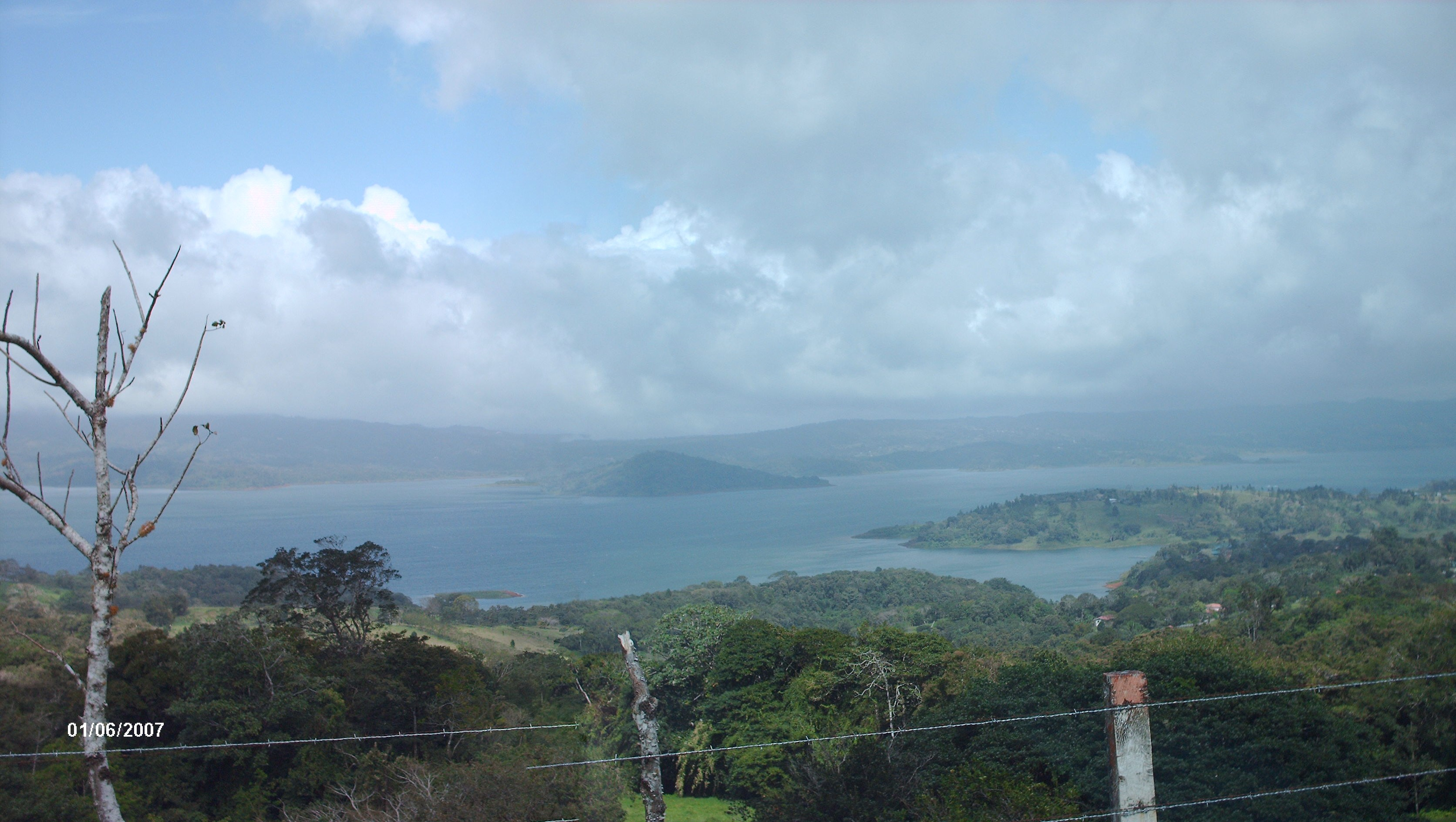 Arenal lake